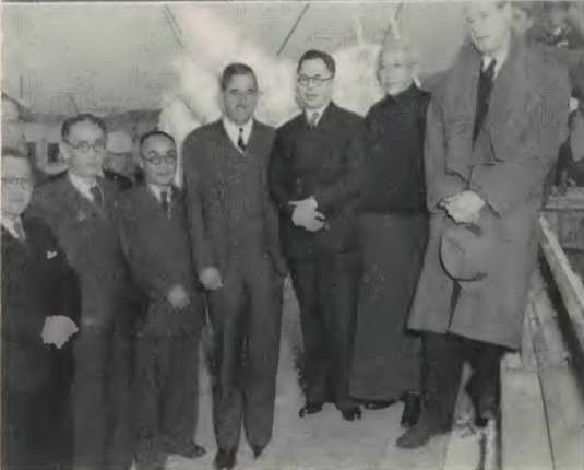 Group of Chinese and American dignitaries against a background of U.S. relief flour, shown as they joined in celebrating the unloading of this shipment. Standing alongside the S.S. California they include American Consul General John M. Cabot (centre) and to his left: Mayor K.C. Wu; Mr Y.T. Miao, Chairman of the Executive Yuan Commission for American Relief Supplies; and James P Moody, Deputy Director of U.S. China Relief Mission.